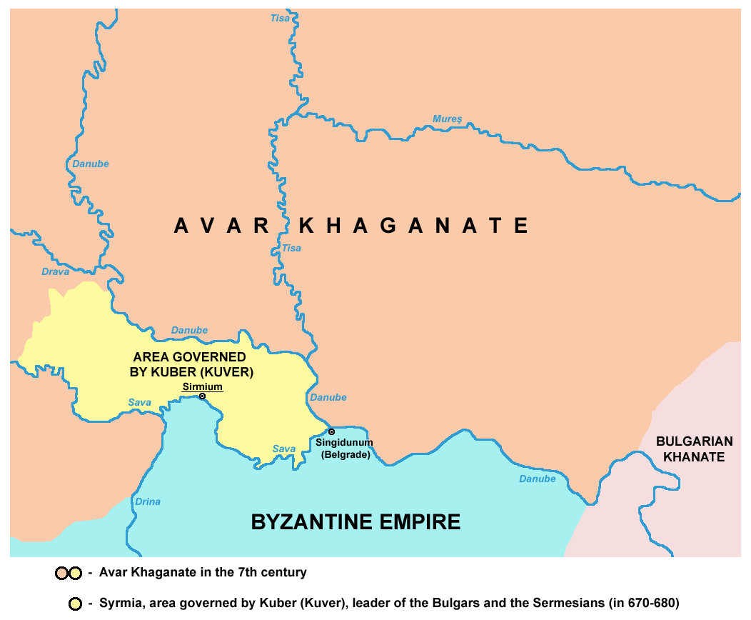 Syrmia, area governed by Kuber (Kuver), leader of the Bulgars and the Sermesians in the 7th century (in 670-680).